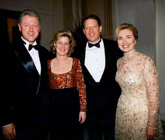 From left to right, US president Bill Clinton, Tipper Gore, US Vice President Al Gore, first lady Hillary Rodham Clinton.